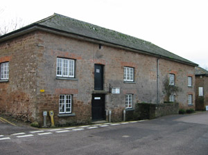 Photograph of Otterton Watermill, Otterton, near Budleigh Salterton, Devon, United Kingdom.